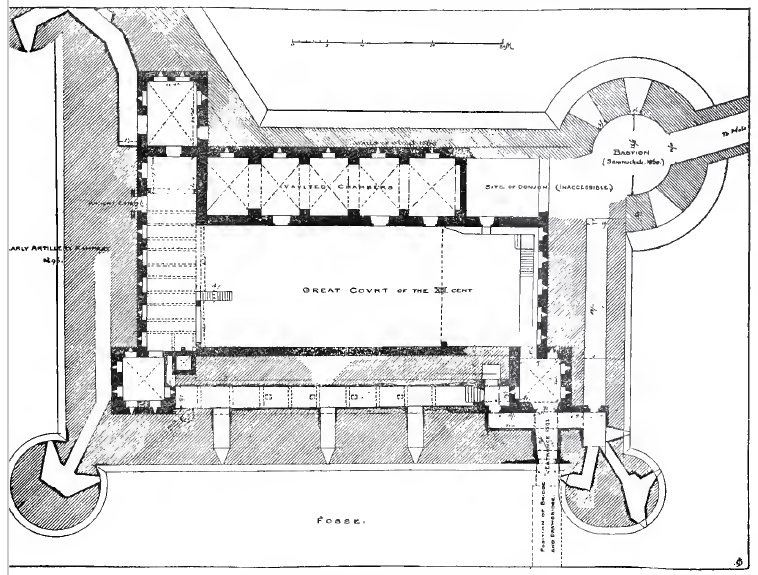 Othello Castle, Famagusta, groundplan 1918